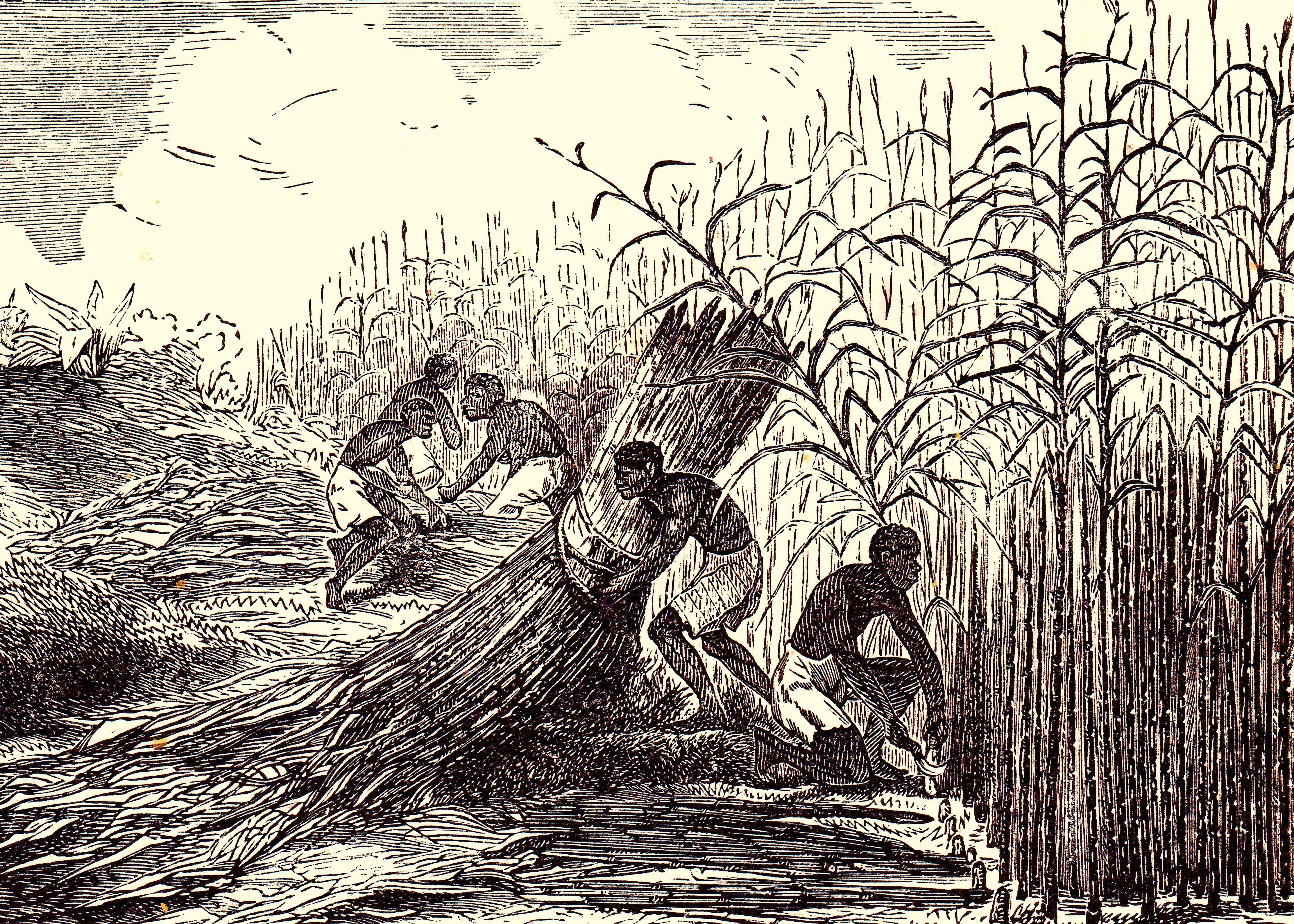 Suikerriet